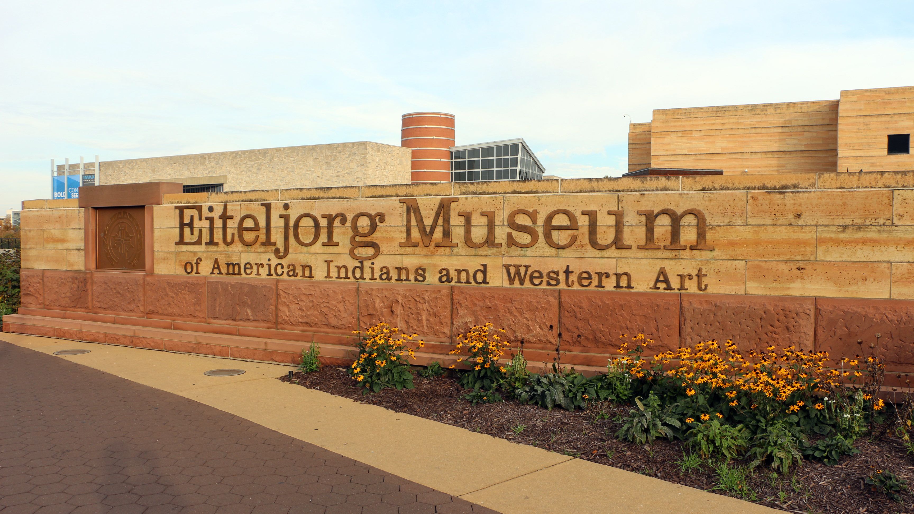 Eiteljorg Museum